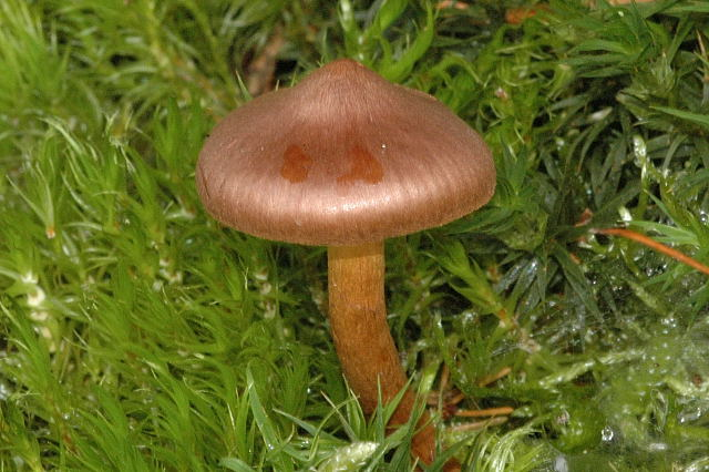 Cortinarius fasciatus from Commanster, Belgium. If you think this is a different taxon, please contact James Lindsey.